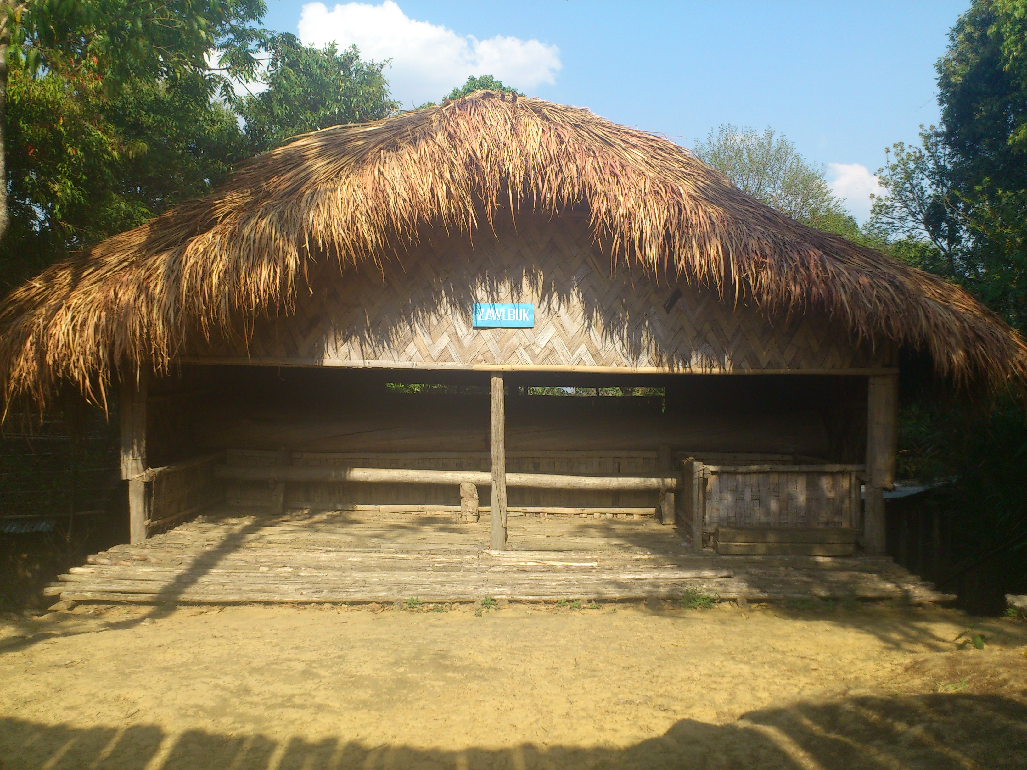 A reconstructed model of Zawlbuk at Reiek